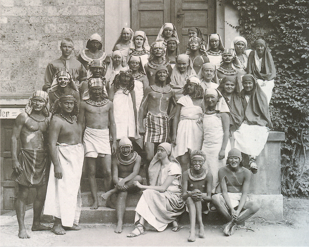 Photograph of the chorus of Egyptians in the 1922 production of Handel's Opera Giulio Cesare in Göttingen.